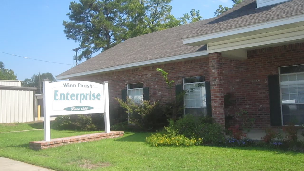 Winn Parish Enterprise newspaper, Winnfield, LA